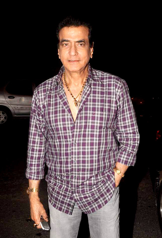 Jeetendra 2012 ekta birthday